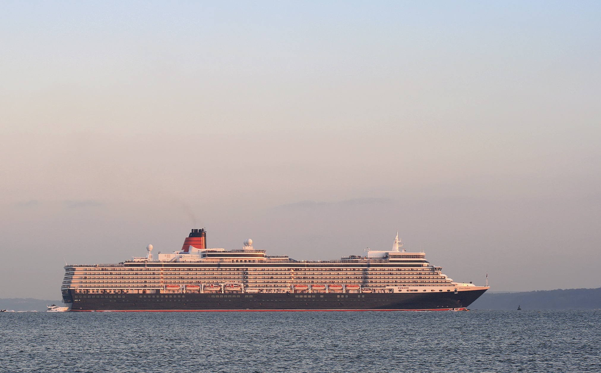 Cunard cruise ship Queen Elizabeth, 92,000 gross tonnes, lit by the setting sun, passing Calshot Spit light buoy in the Solent, outward bound from Southampton on its maiden voyage 12 October 2010. Image uploaded by me User:George.Hutchinson from a photograph taken by and supplied by Brian Burnell. The photograph should be attributed to Brian Burnell in this format. Wikipedia editors are reminded that the copyright remains with the photographer, and that the terms of the Creative Commons Attribution-ShareAlike 3.0 Unported Licence that allow editors to reuse this image apply to Wikipedia editors also, as they do to other reusers of this image. Breaches of the licence terms are not only unlawful, but are also antisocial, in that breaches discourage photographers from making their images freely available to everyone without payment. Non-Wikipedia users are requested to advise Brian Burnell of its use other than on Wikipedia.